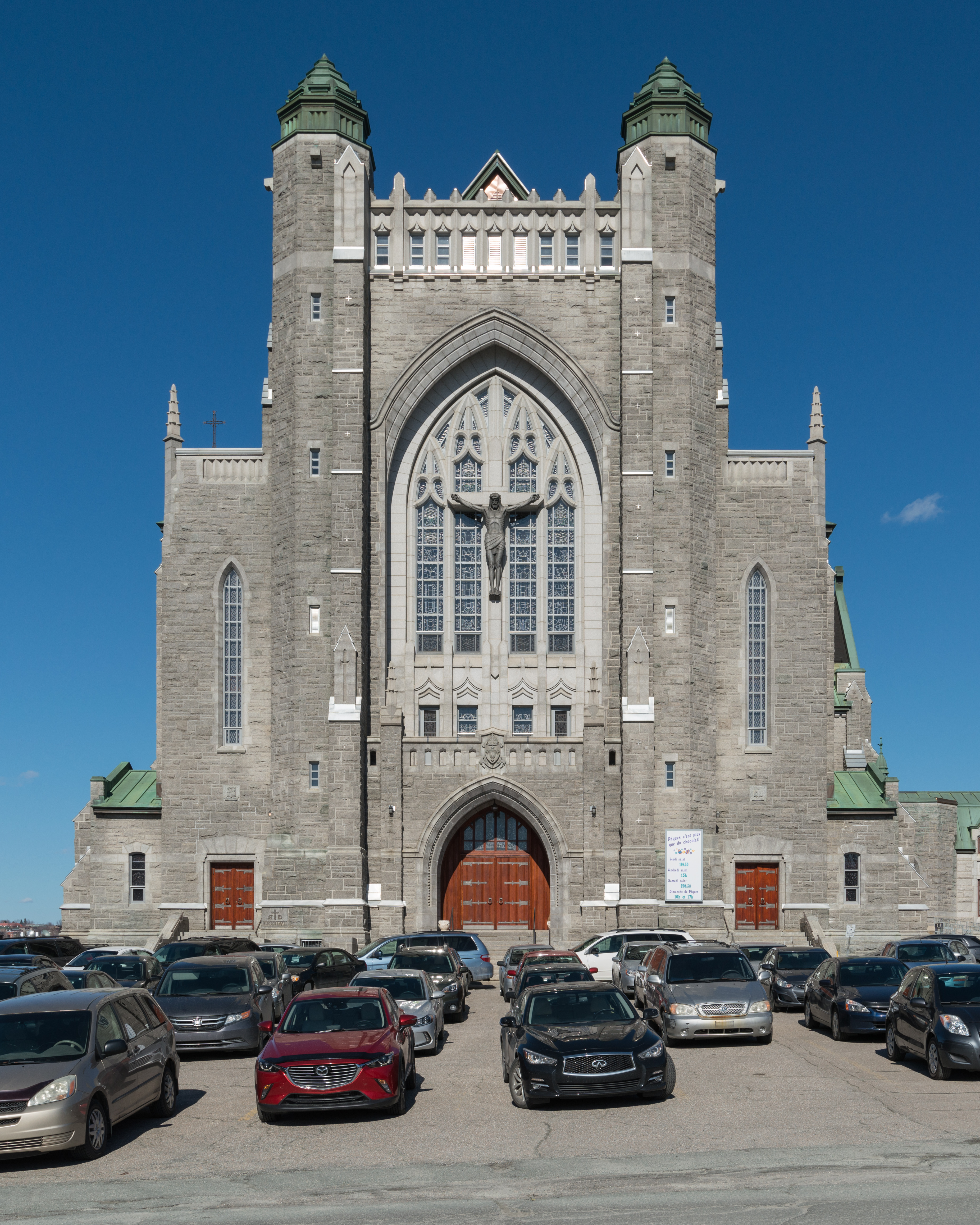 A southwest view of Cathédrale St-Michel, Sherbrooke, Québec